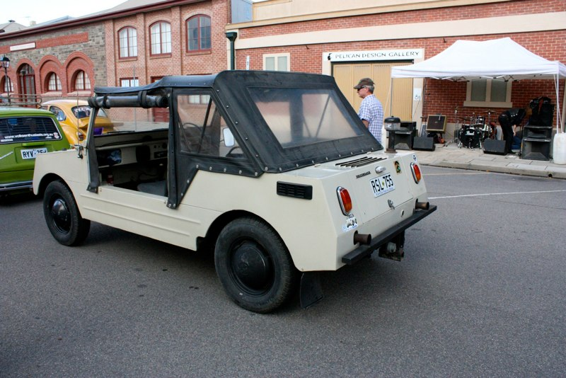 Volkswagen Country Buggy made in Australia.